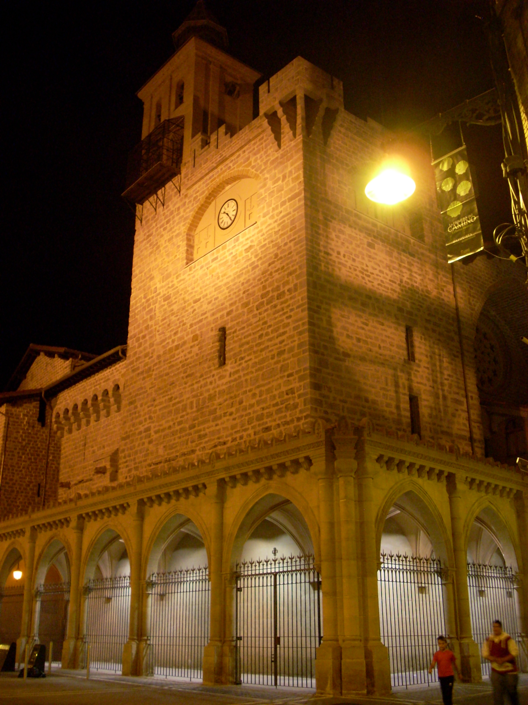 Church of St. Nicholas, Pamplona, Spain